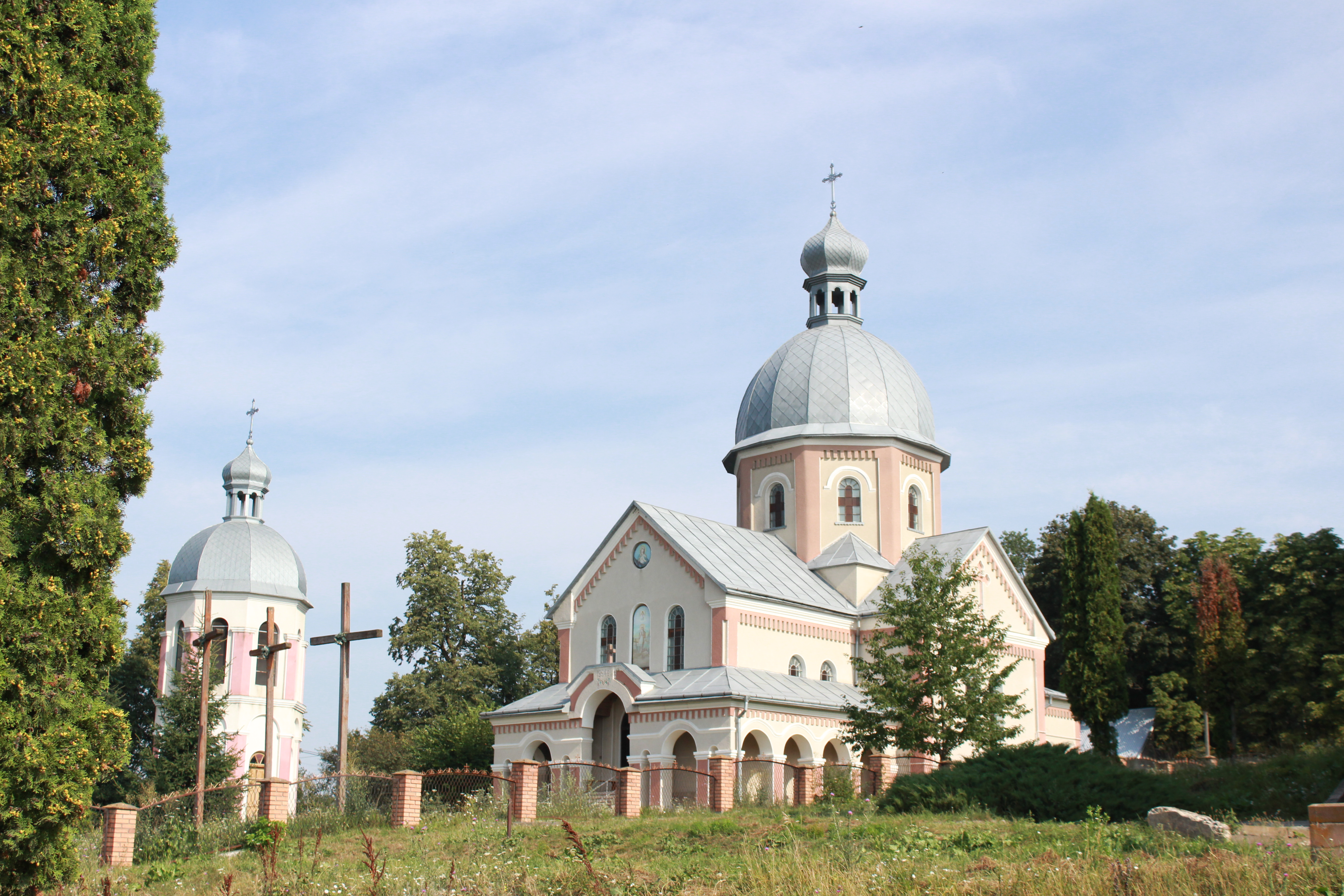 Церква Вве­дення в храм Пресвятої Богородиці